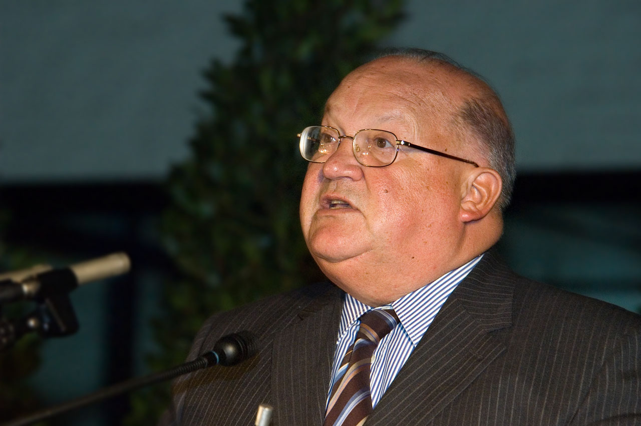 Jean-Luc Dehaene. Photo by Michel Vuijlsteke. Taken on October 19, 2005 at 12.52pm CEST with a Nikon D70. 017 sec (1/60); Aperture: f/5.3; Focal Length: 220 mm